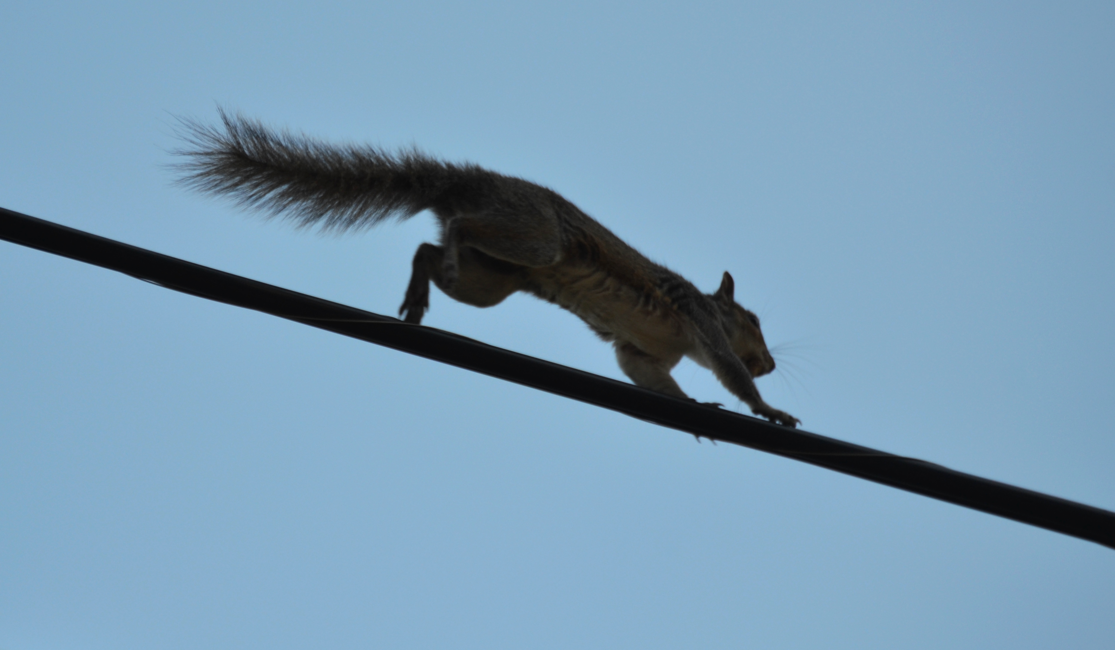 Two very young squirrels were playing on the power lines - chasing one another. A lot of fun to watch.